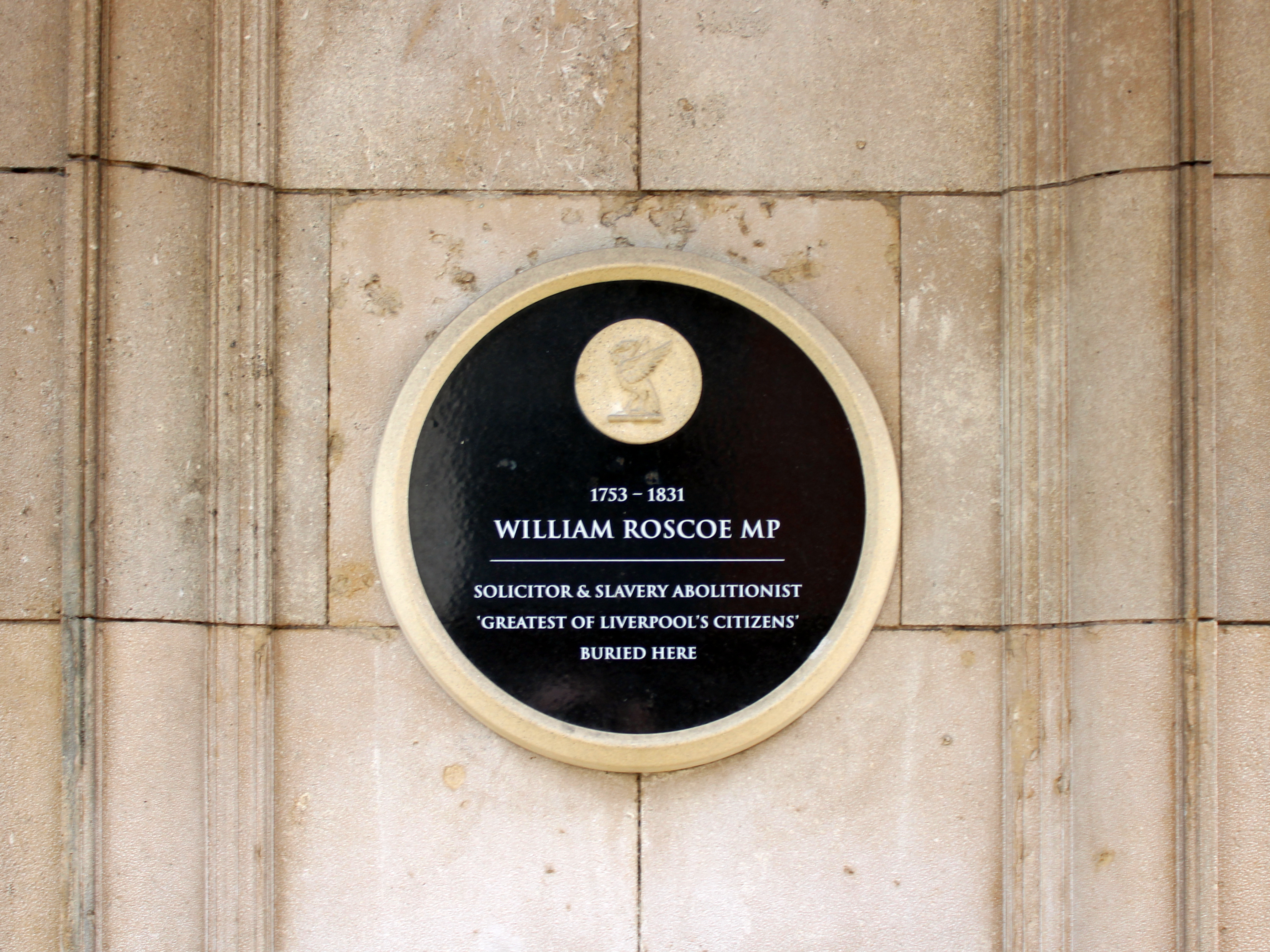 Plaque locating burial place (roughly) of William Roscoe in Roscoe Gardens. On the right hand (northwest) side of the memorial pavilion